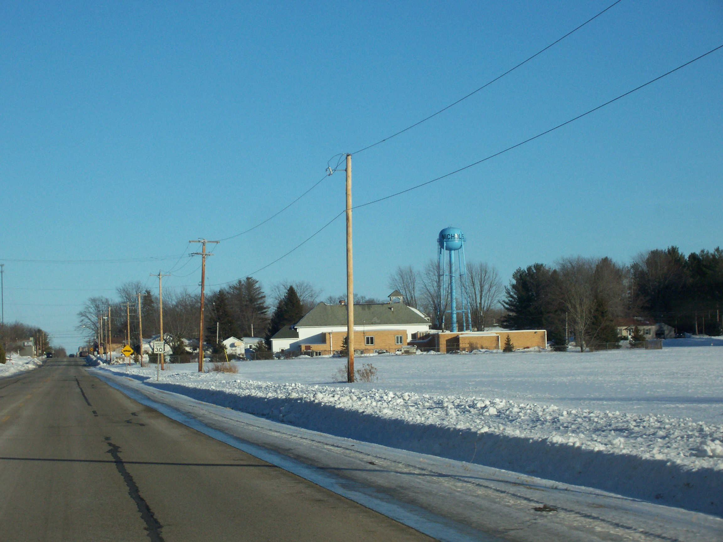 Looking east at the skyline for Nichols, Wisconsin